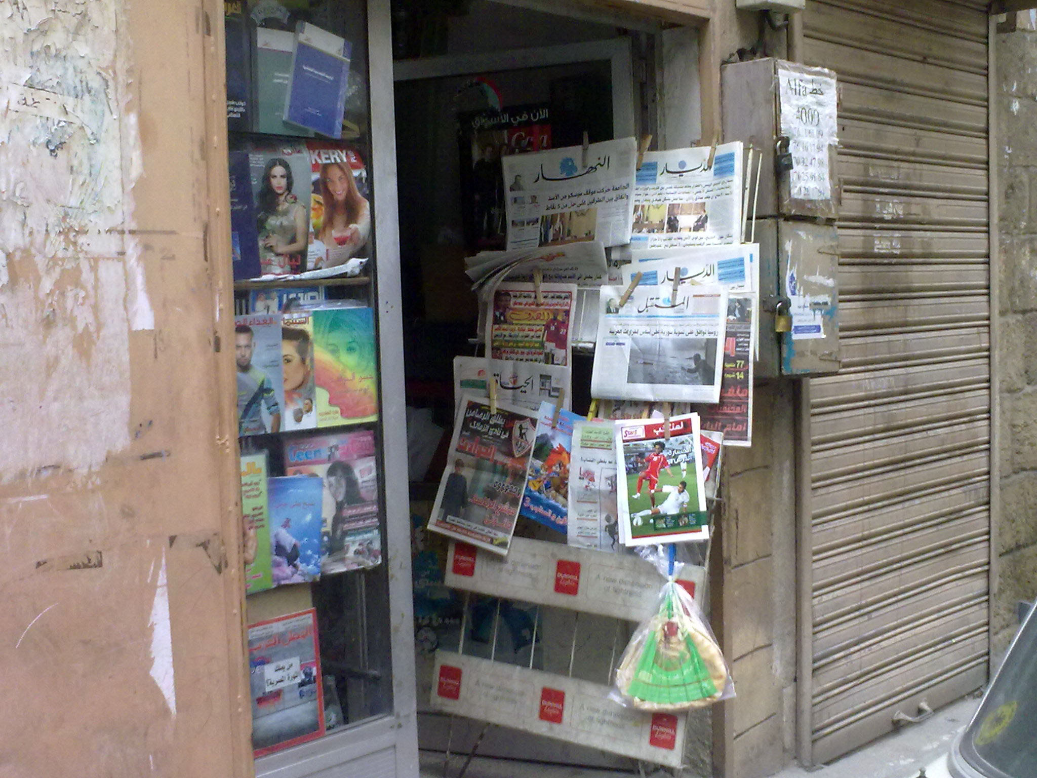 News Stand, Tripoli, Lebanon. Newspapers on display include the international daily Al-Hayat, and the Lebanese dailies Al-Mustaqbal and An-Nahar.